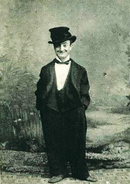 Little Tich in The Sketch, 1893.